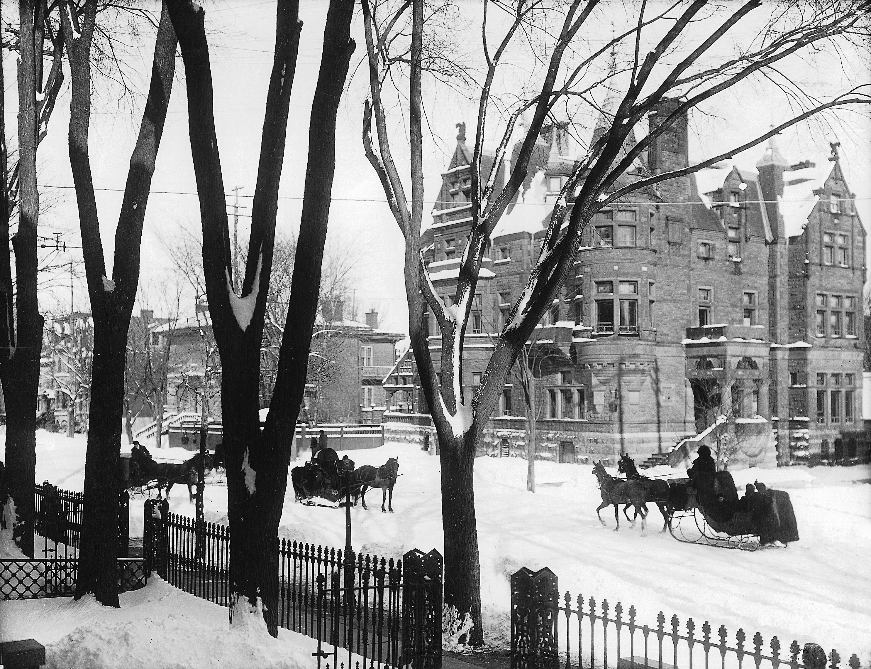 Photograph, Sherbrooke Street in winter, Montreal, QC, 1896, Silver salts on glass - Gelatin dry plate process - 20 x 25 cm